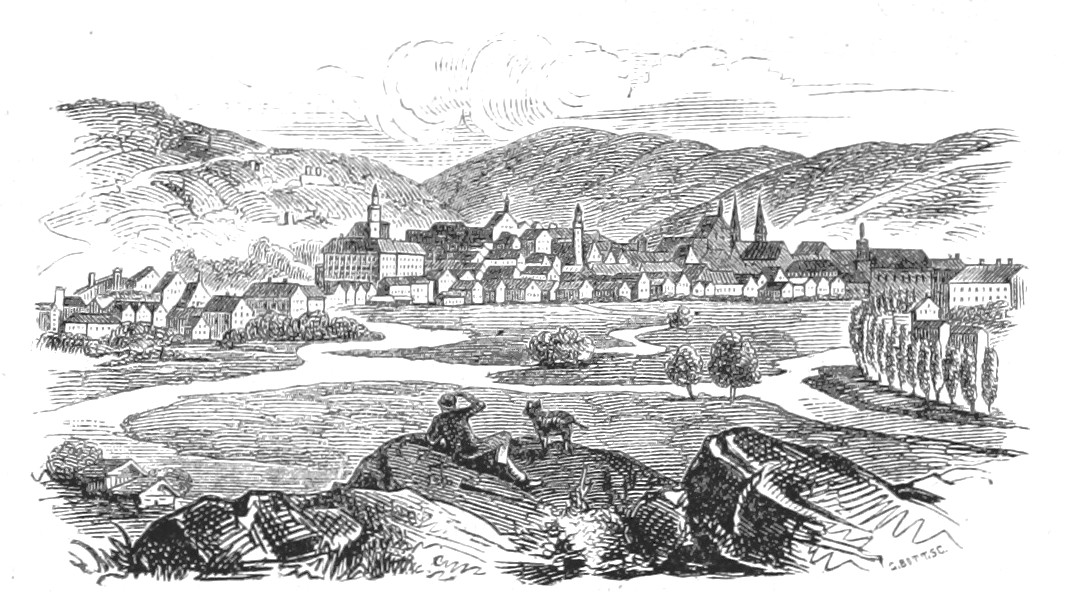 Image extracted from page 711 of above (page number relates to the digital version and can differ from the pagination within the book). Original held and digitised by the British Library. Note: The colours, contrast and appearance of these illustrations are unlikely to be true to life. They are derived from scanned images that have been enhanced for machine interpretation and have been altered from their originals.